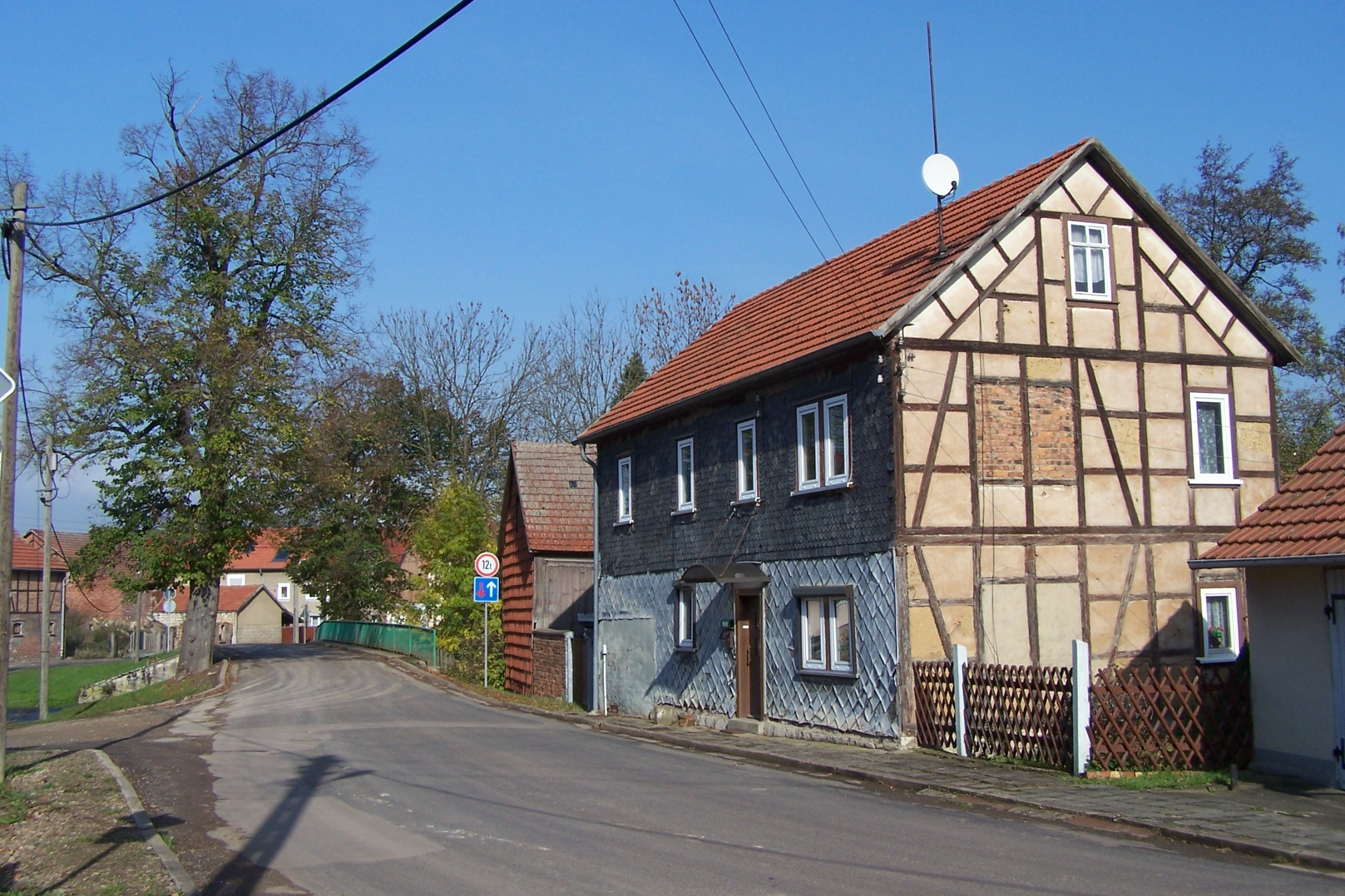 Melborn